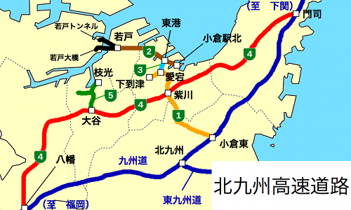 Kitakyushu Expressway Map